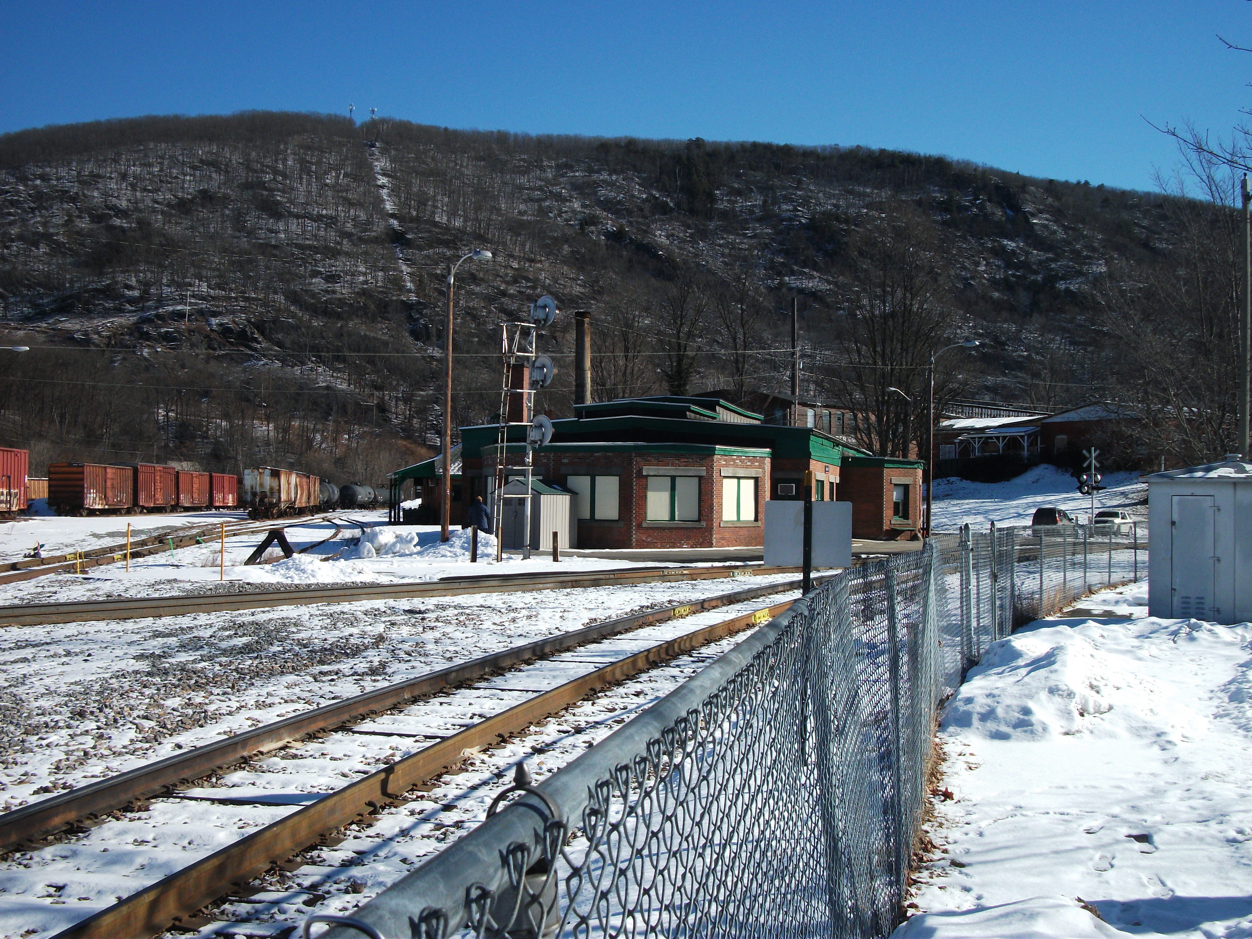 The Amtrak station in Bellows Falls, Vermont. The Green Mountain Railroad yard is at left.